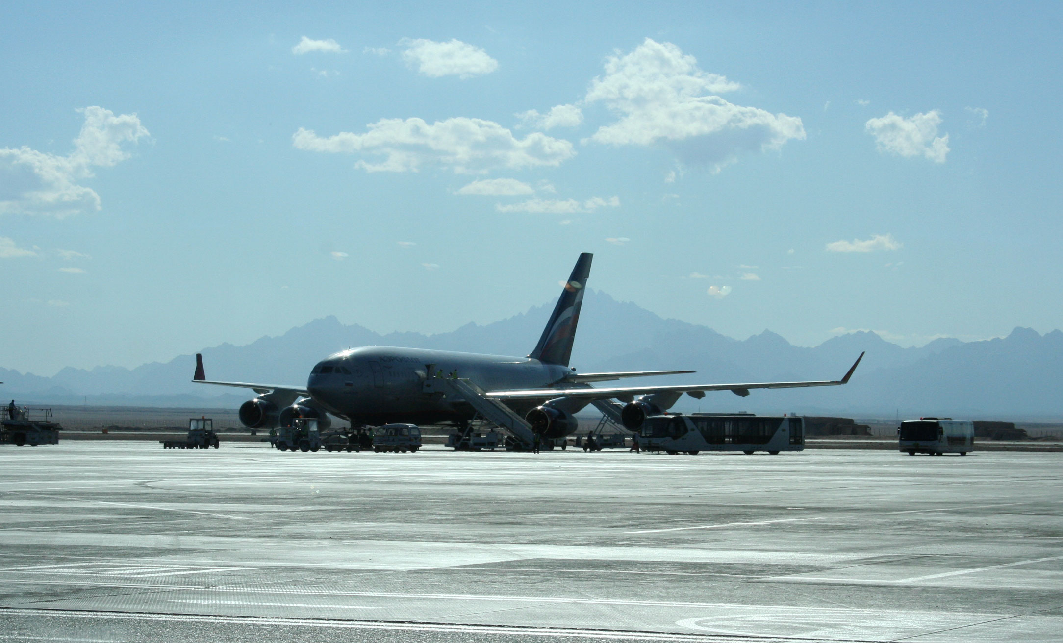 IL-96, Aeroflot, Hurgada airport, Egypt